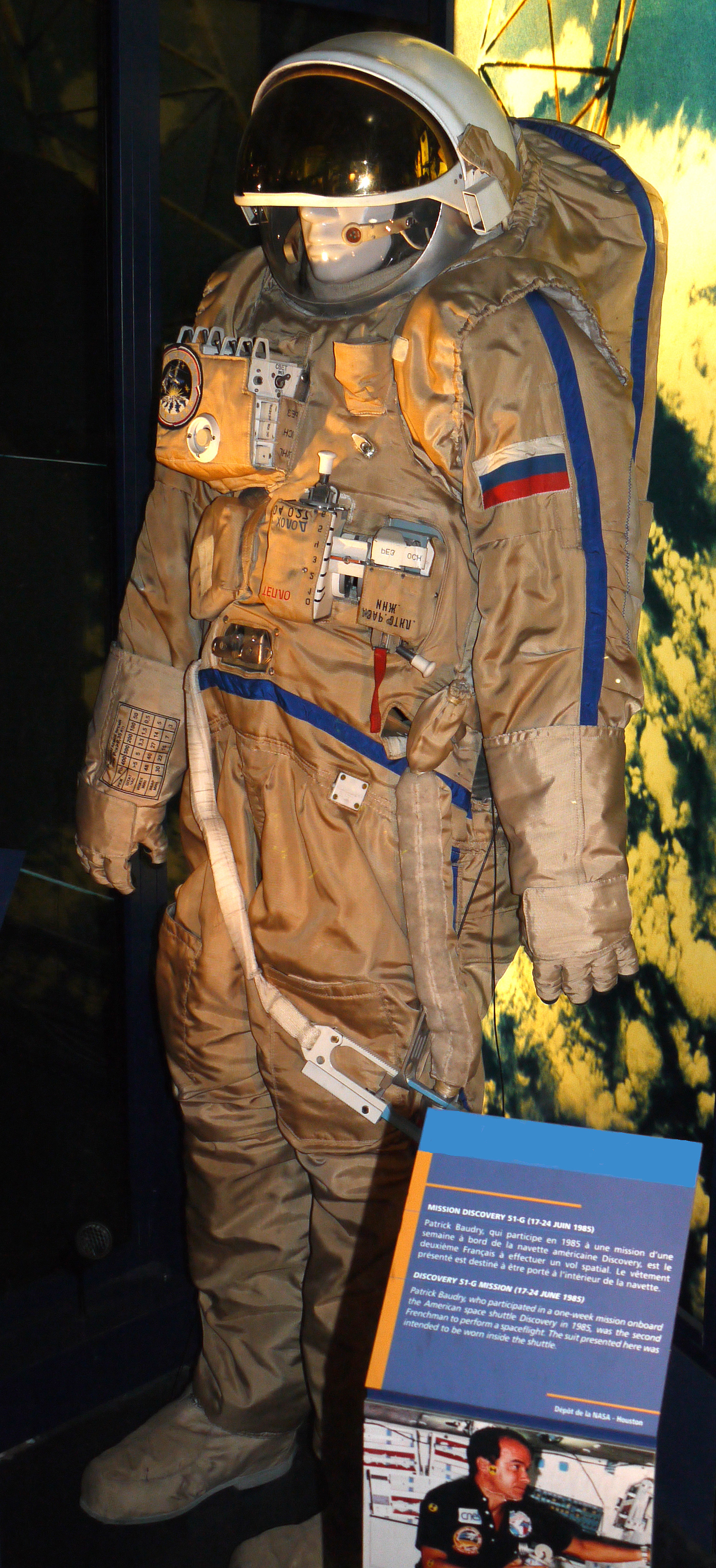 Russian space suit for extra-vehicular egress Orlan , Museum of Air and Space Paris, Le Bourget (France)